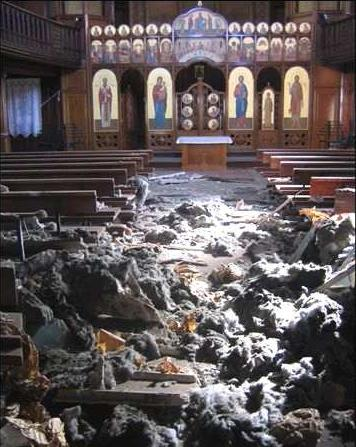 Rubble from the collapsed roof of the Ukrainian Cathedral of the Holy Family in Exile, Westminster, London